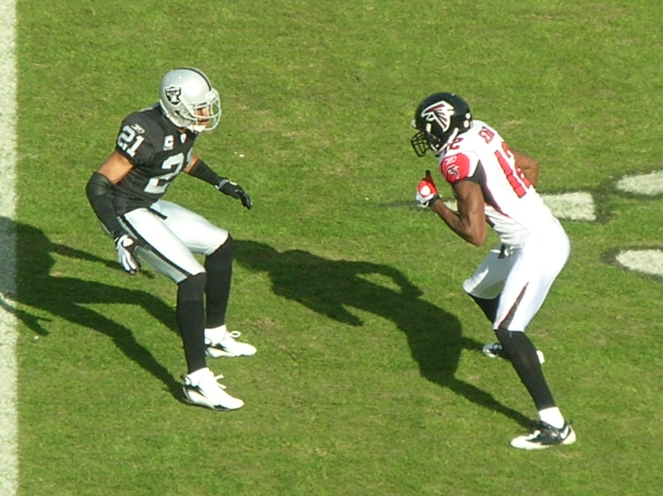 Oakland Raiders cornerback Nnamdi Asomugha (#21) covers Atlanta Falcons wide receiver Michael Jenkins (#12) at a home game against Atlanta. The Falcons won 24-0.